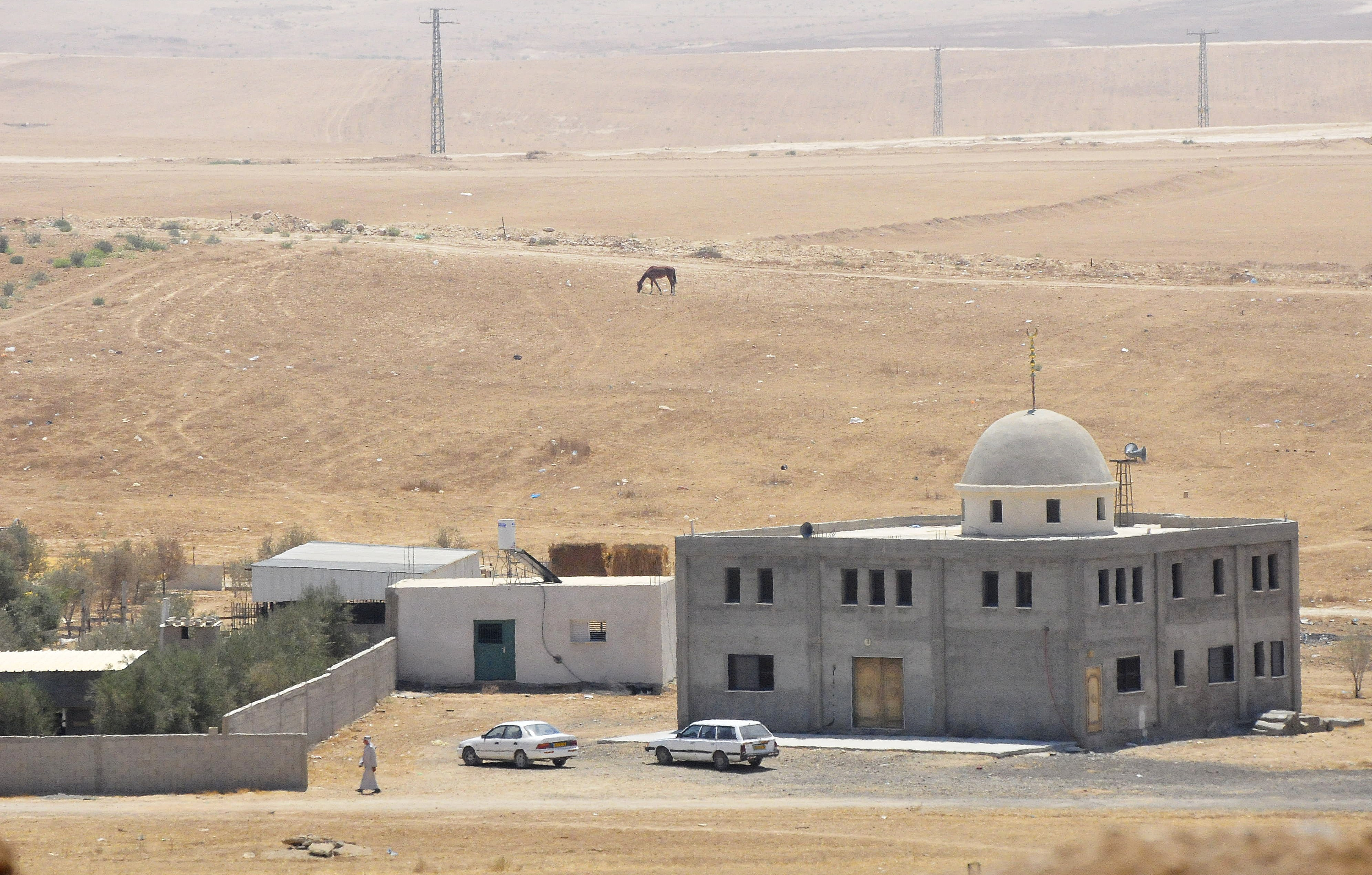 One of al-Sayyid' mosques